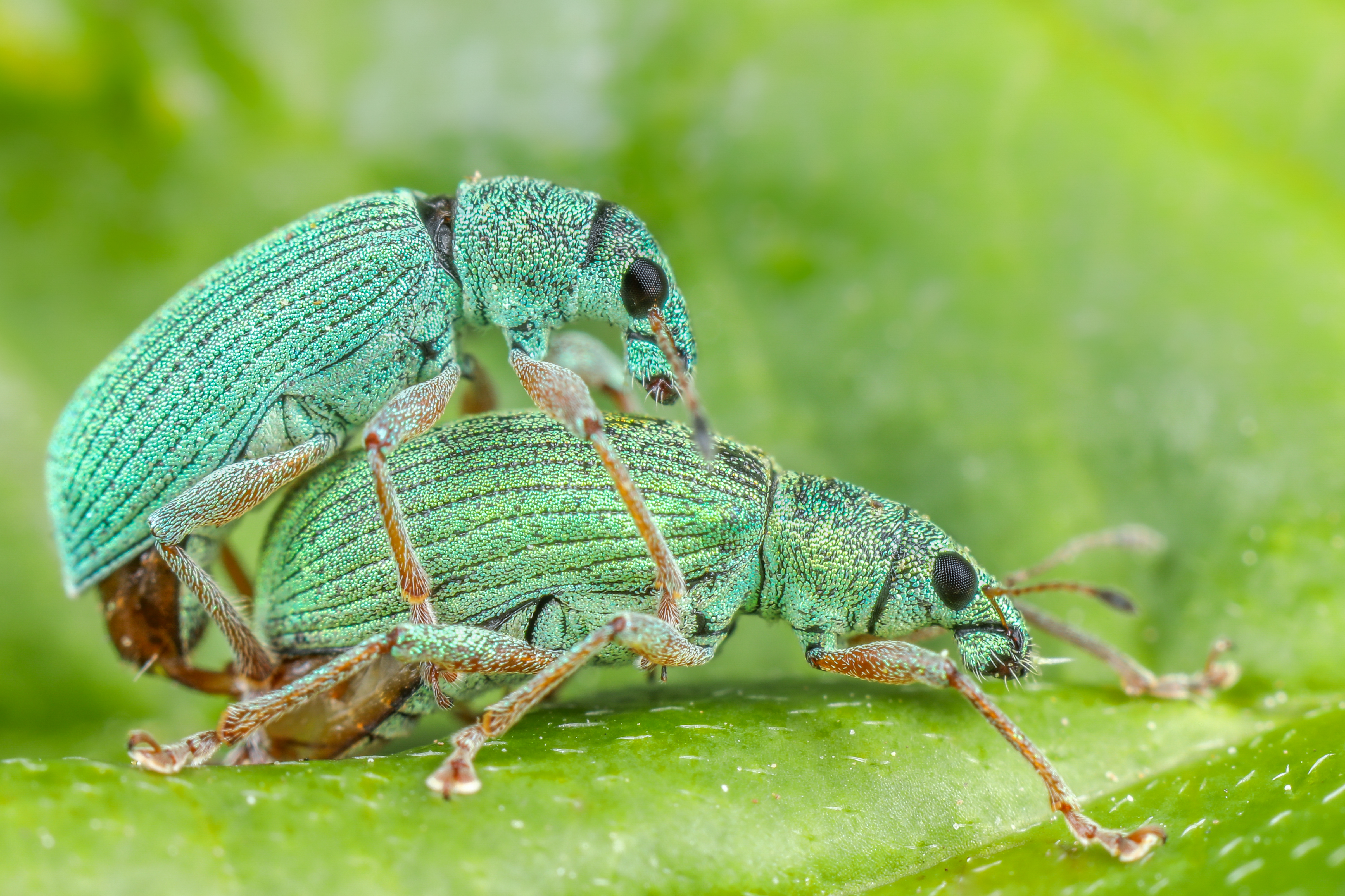 Green Weevils - Phyllobius argentatu mating